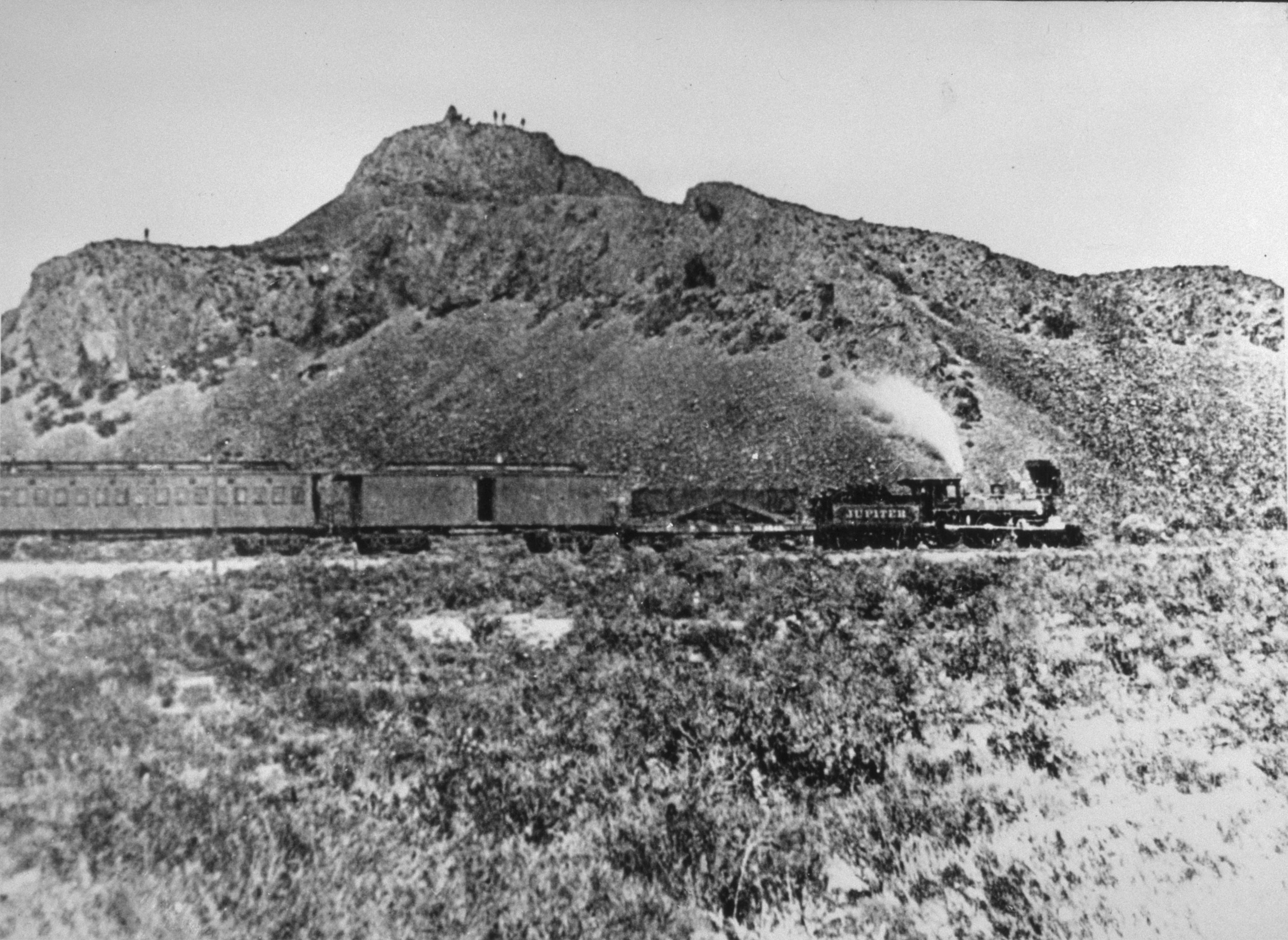 The train pictured is the 'Jupiter', which carried Leland Stanford, one of the "big four" owners of the Central Pacific, and other railway officials to the Golden Spike Ceremony. Indians, who watch from atop the hill, overlook the train.